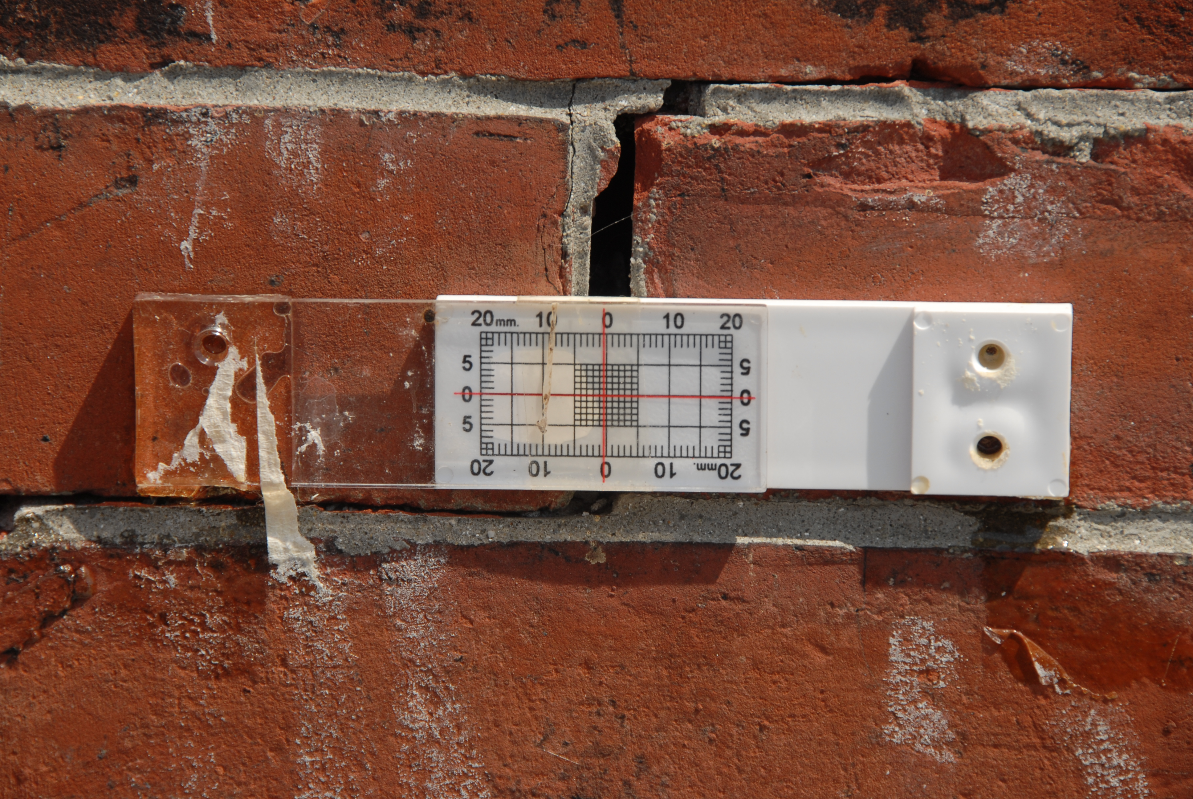 Mechanical strain gauge installed on the Hudson-Athens Lighthouse to measure the growth of foundation cracks.